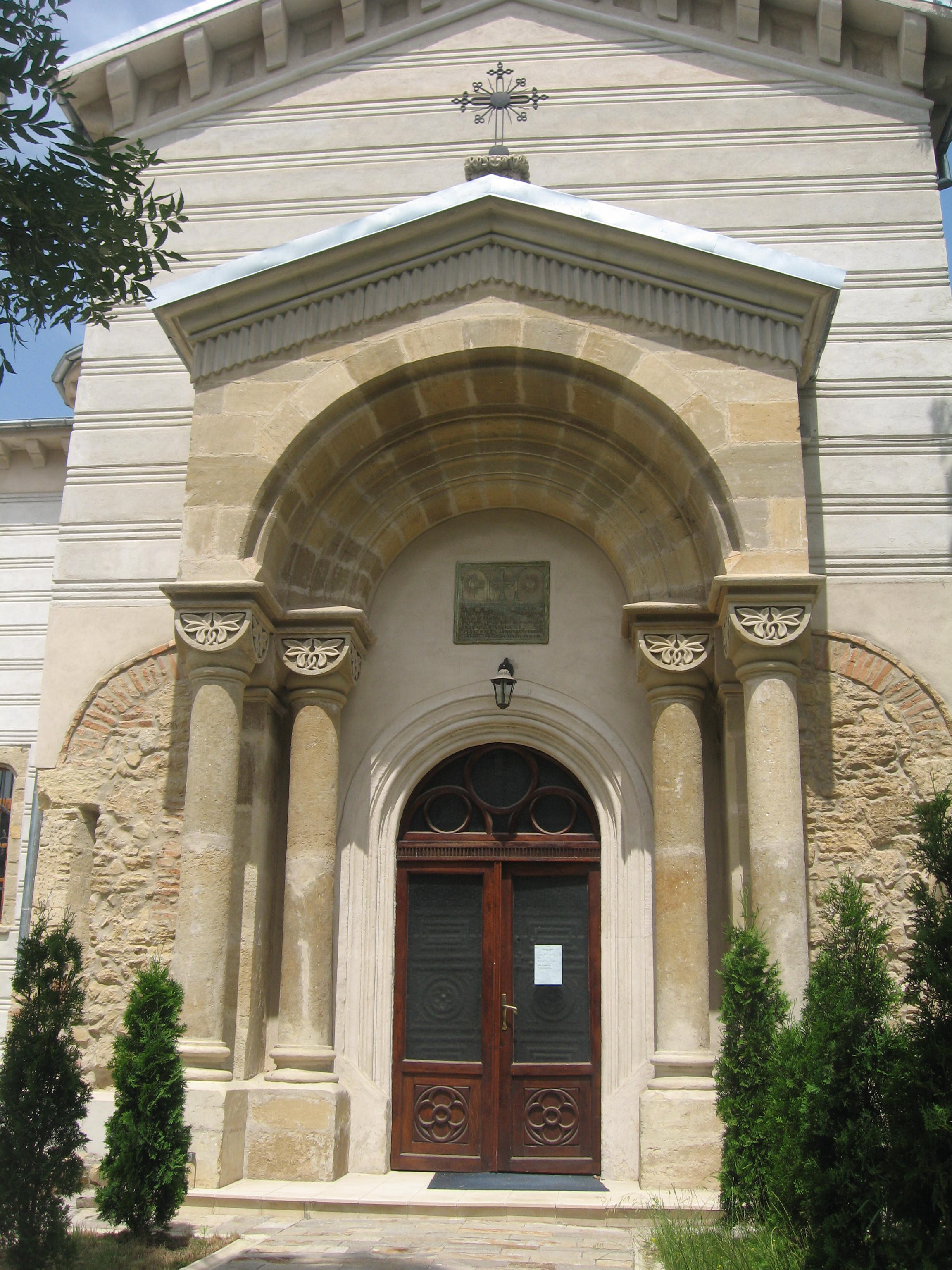 Armenian church in Iași